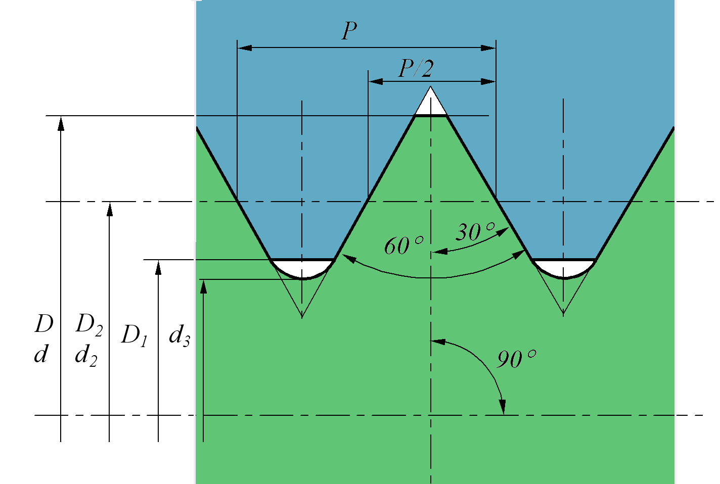 Metric screw thread geometry